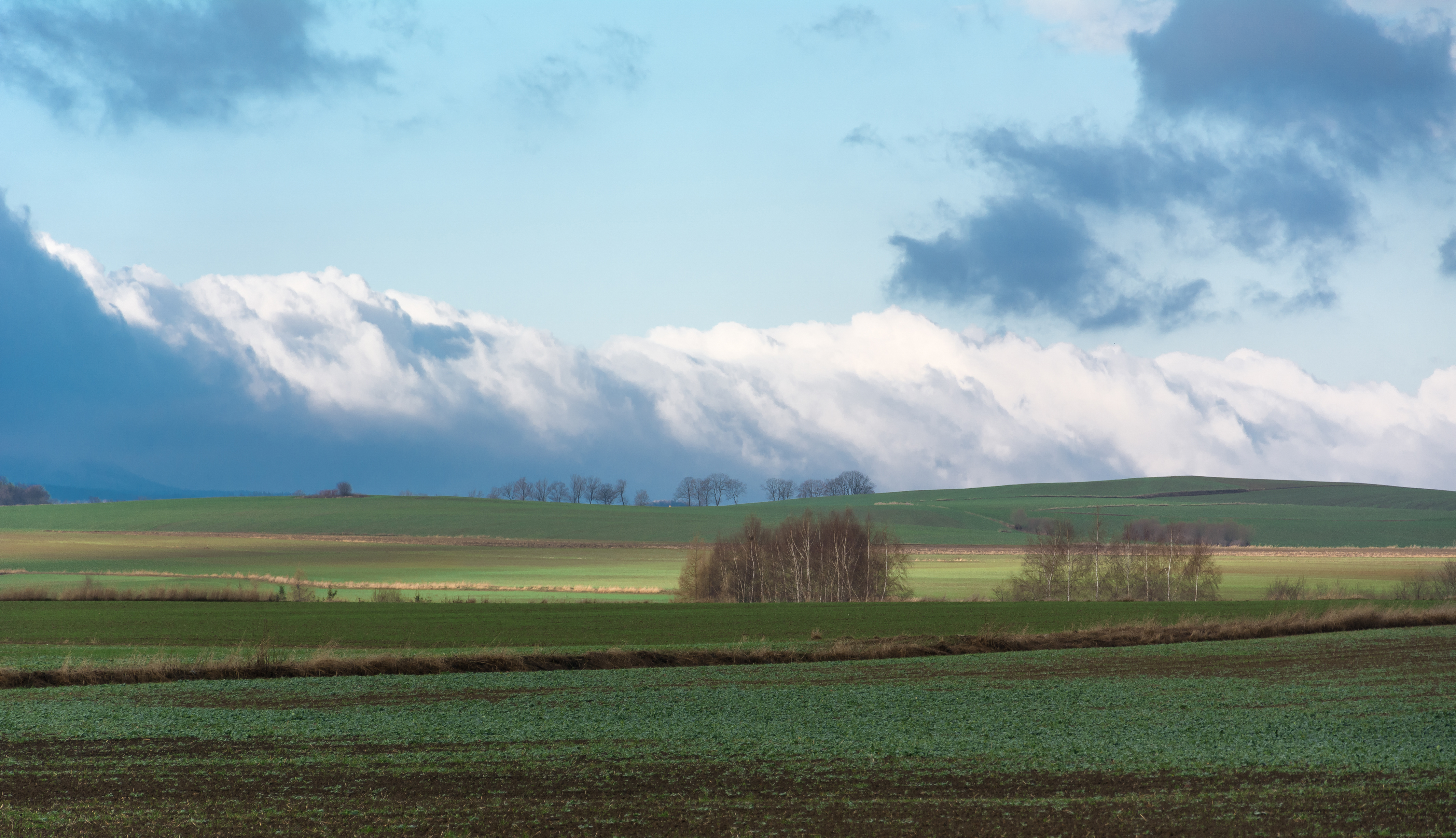 Cold front in Kotlina Kłodzka